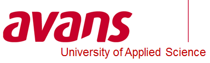 Avans logo